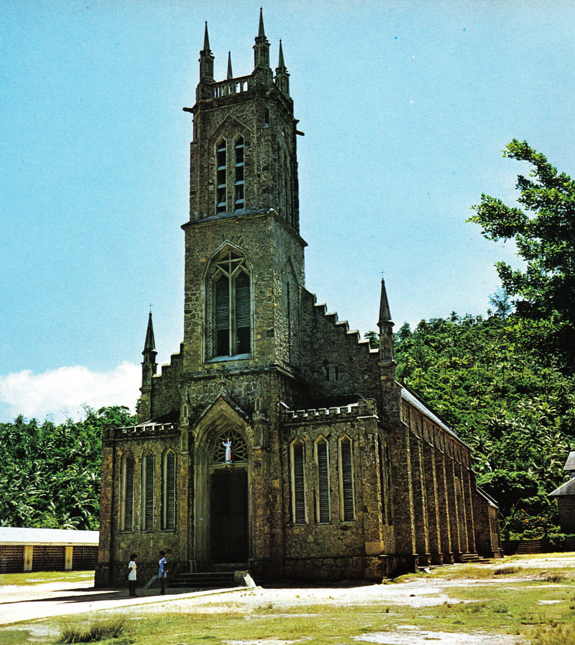 The parish church of St. Francis at Baie Lazare, Mahé Island, Seychelles.